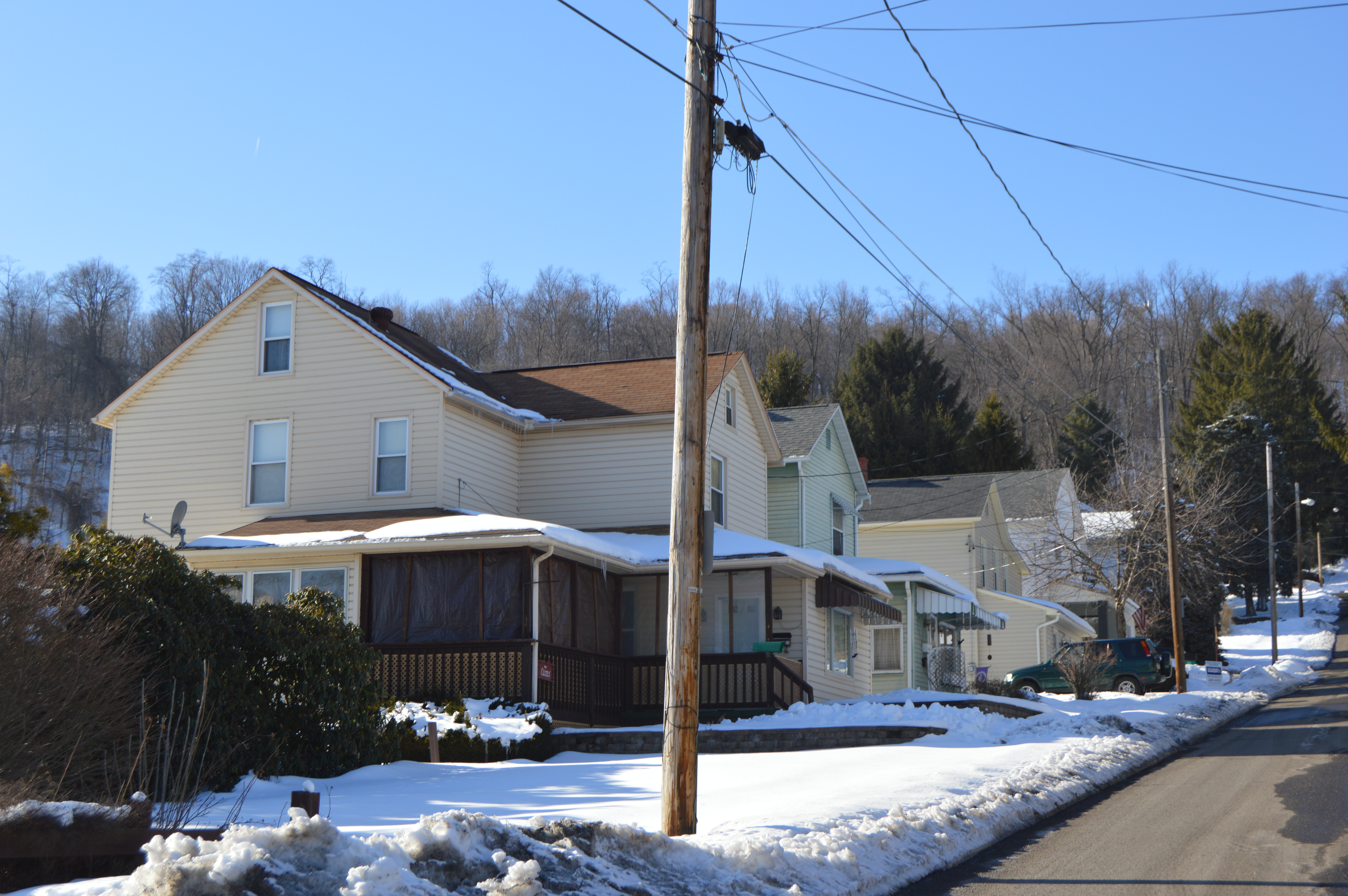 Houses on the western side of Blue Diamond Street north of the Thelma Avenue intersection in Lorain, Pennsylvania, United States.